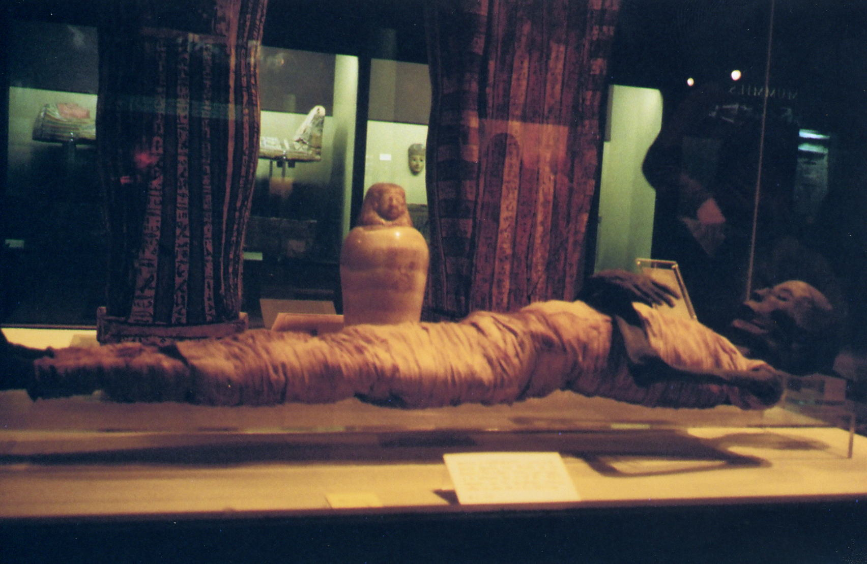 Authentic Egyptian mummy in Rosicrucian Egyptian Museum, San Jose, California